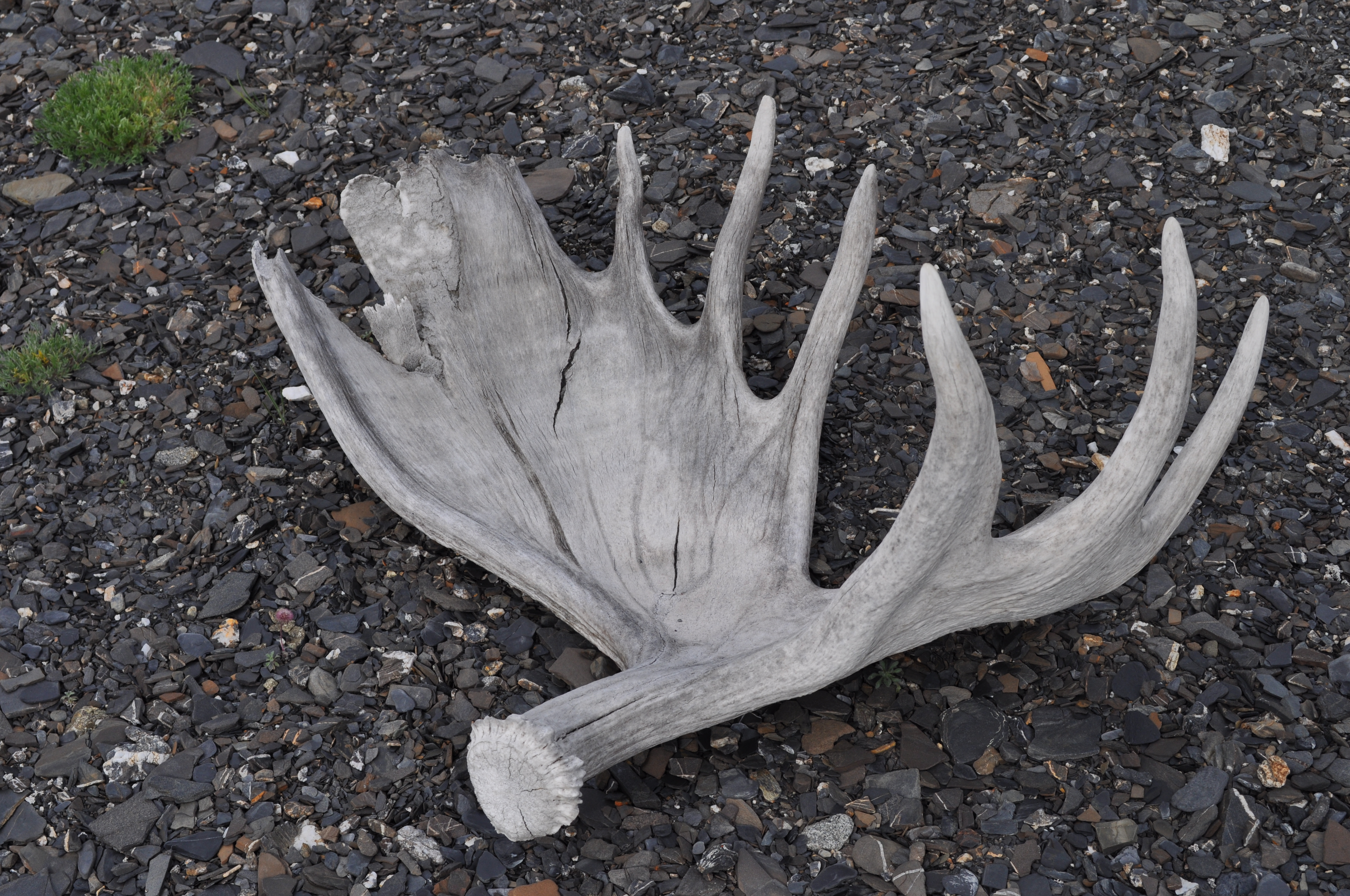 Moose antlers lying on the ground in the Savage River drainage of Denali National Park and Preserve